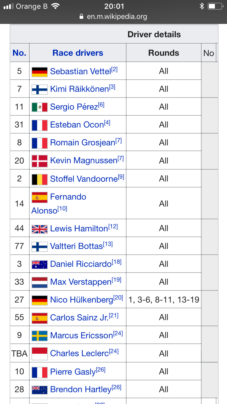 2018 F1 drivers table